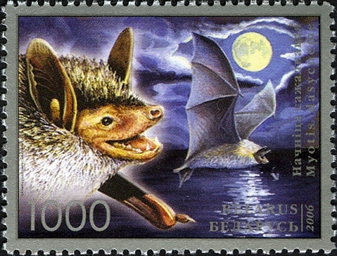 Stamp of Belarus